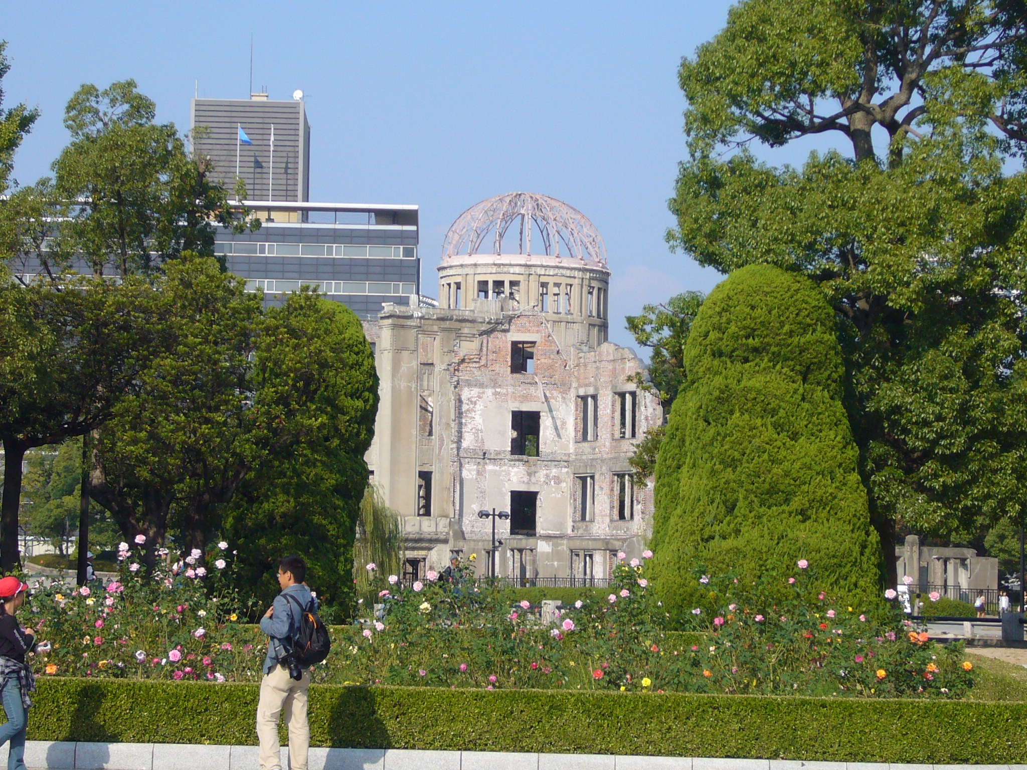 Hiroshima Peace Memorial (Genbaku Dome) (Japan)